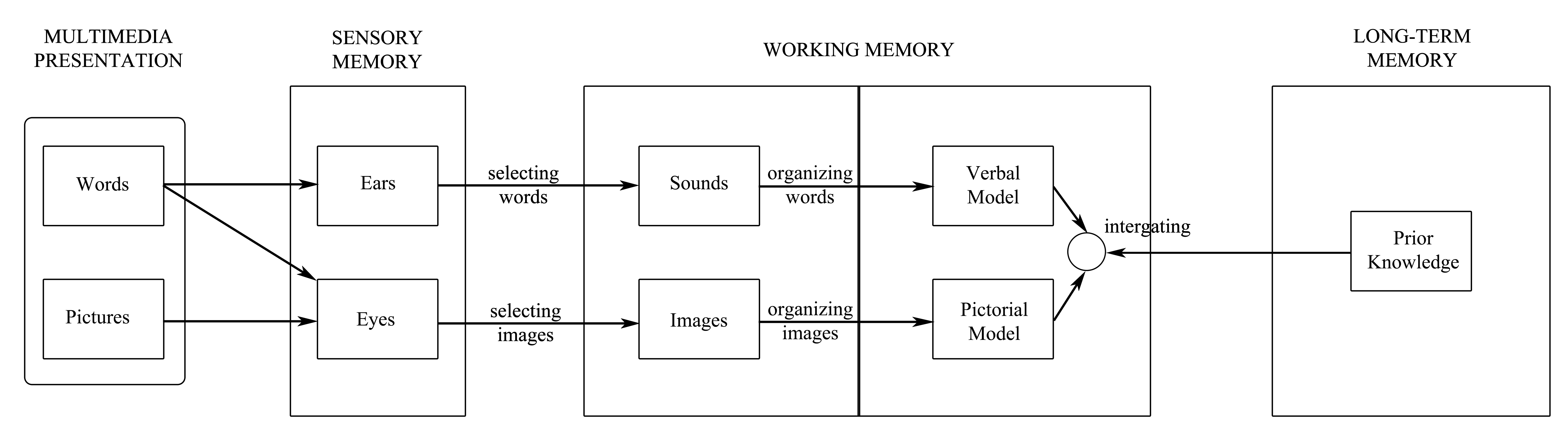 Model of Cognitive Theory of Multimedia Learning (Mayer, 2005)